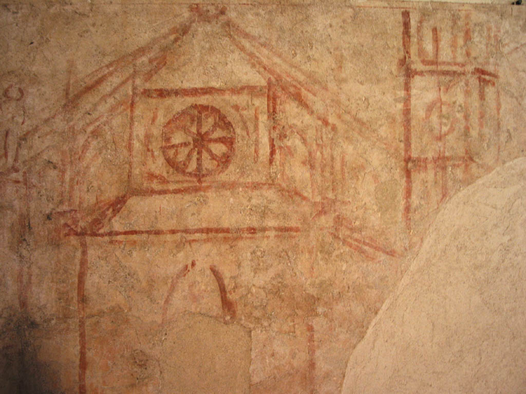 L'eremo di Montesiepi, old sketch with red paint on the wall